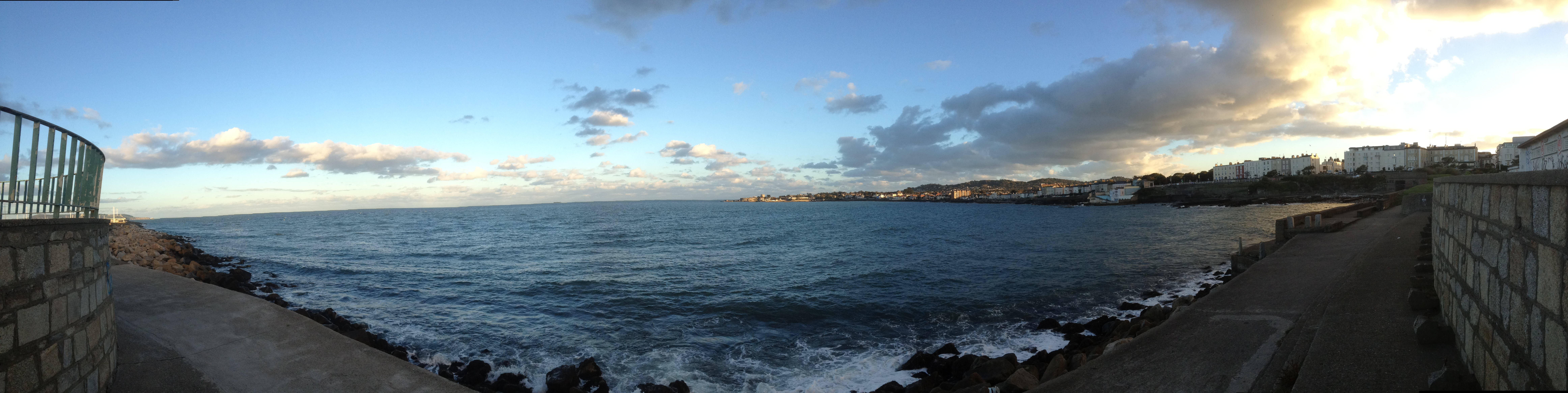 View of the Irish sea from the pier at Dun Laoghaire harbour